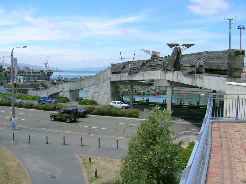 City to Sea Bridge over Jervois Quay in Wellington New Zealand